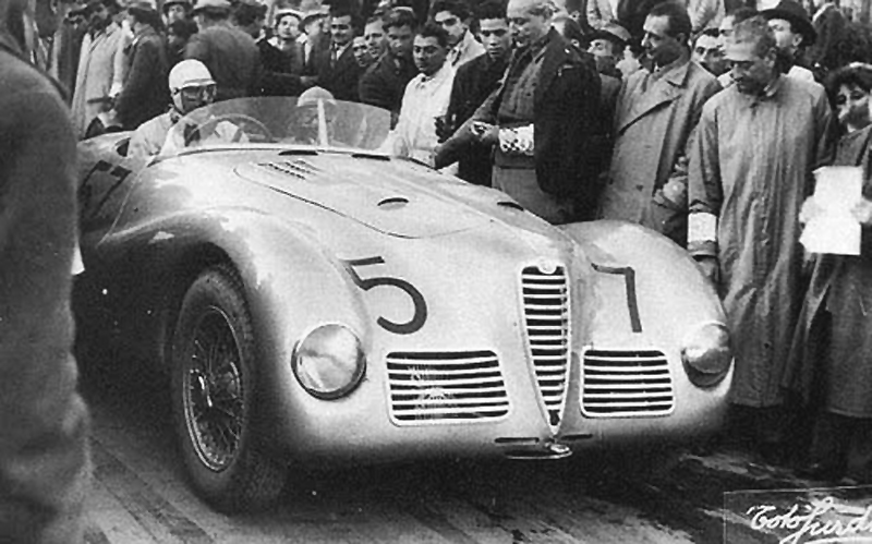 Alfa Romeo 6C 2500 by Colli at Mille Miglia on 2 May 1948, driven by Giampiero Bianchetti and co-driver Giovanni Maria Cornaggia Medici. They did well and ended in 6th place.[1]